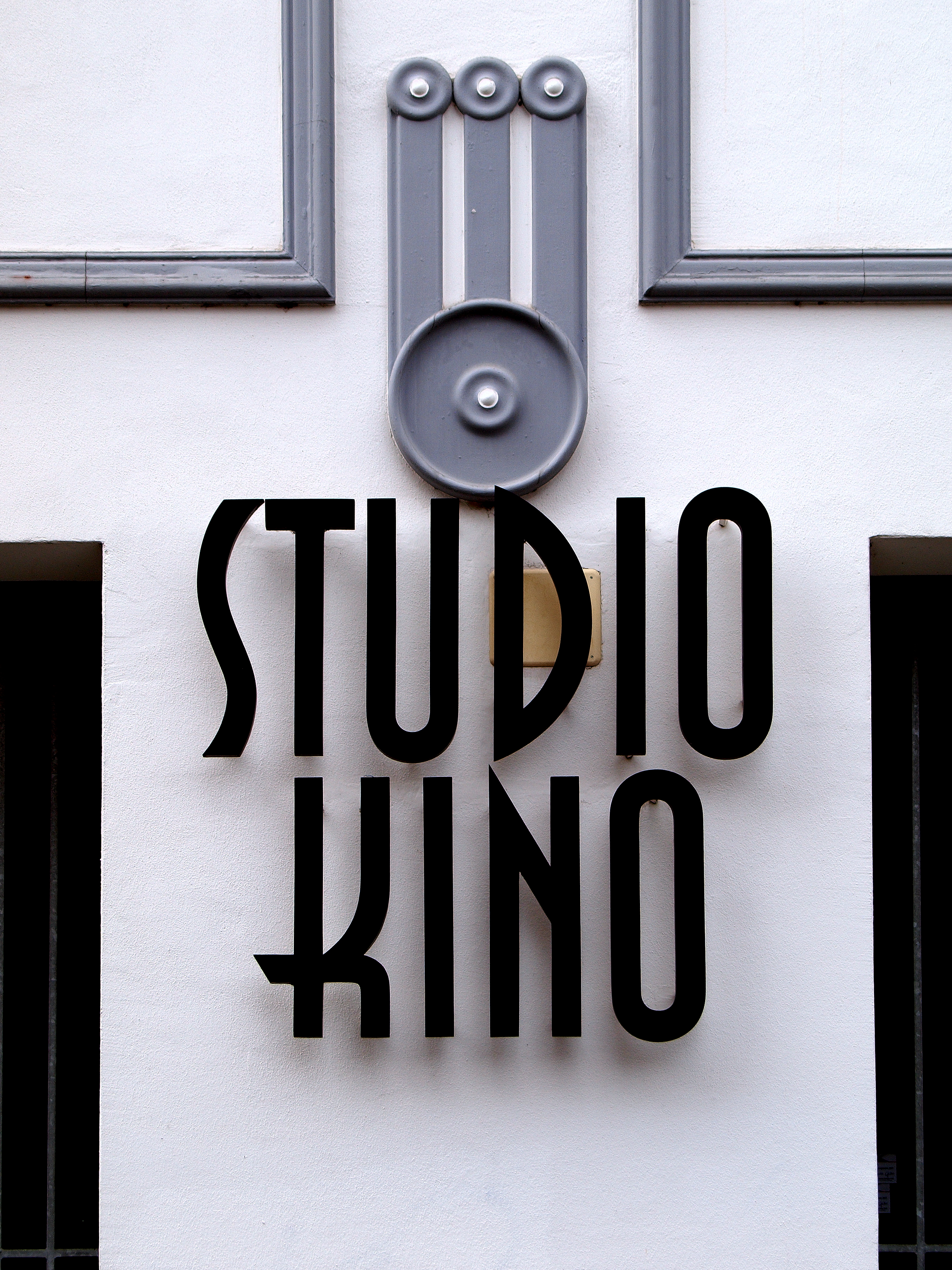 Sign of cinema Studio Kino. Bernstorffstraße 93, Hamburg, Germany.